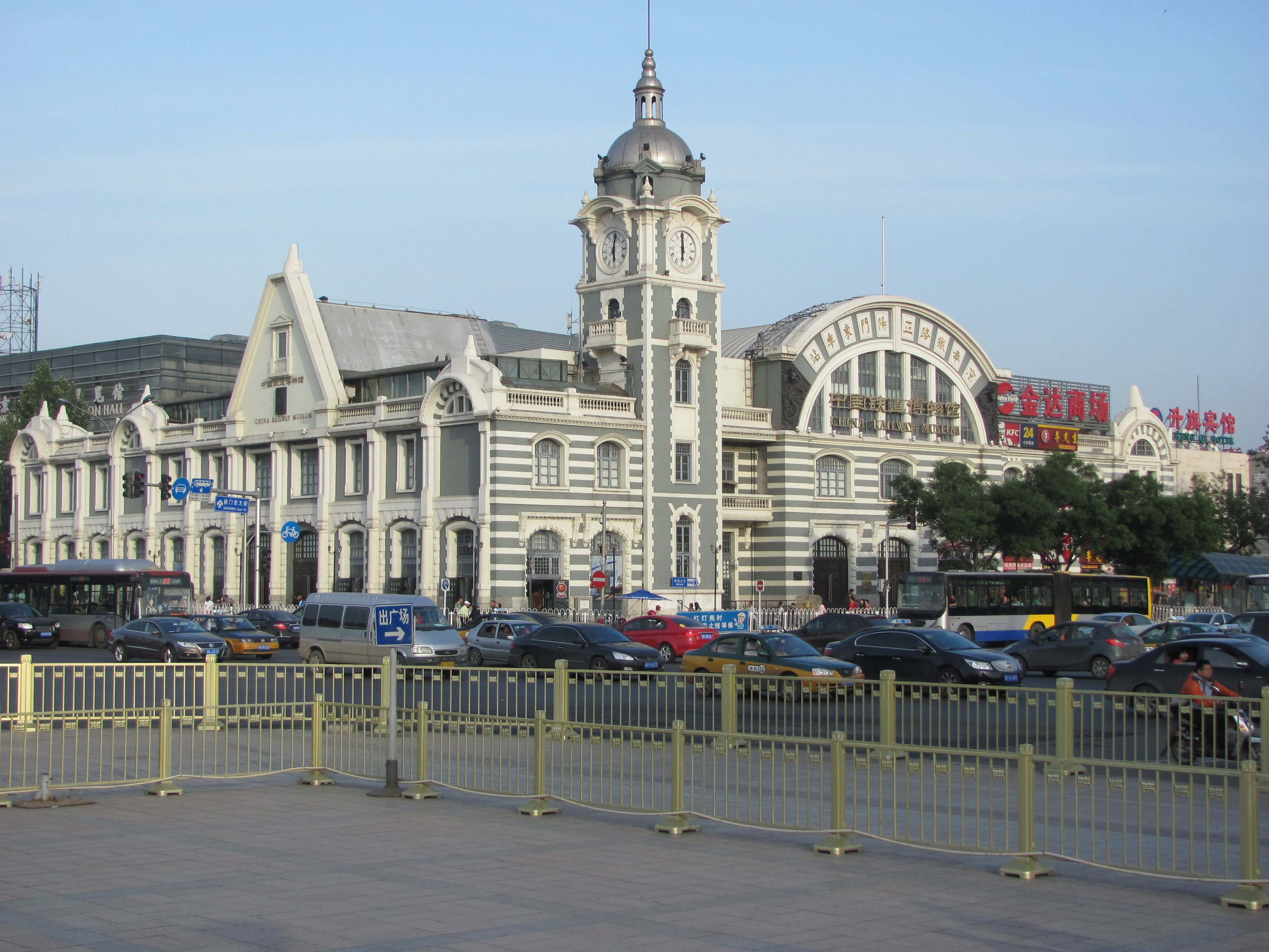 Railway Museum Beijing